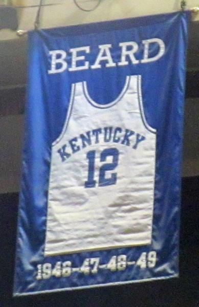 A jersey honoring Ralph Beard hanging in Rupp Arena in Lexington, Kentucky